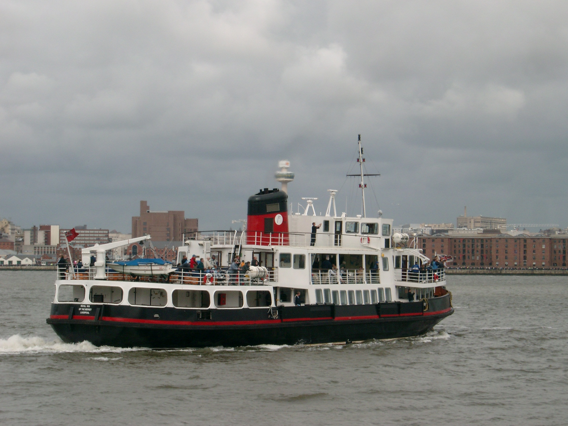 Mersey Ferry Royal Iris of the Mersey IMO Number: 8633712